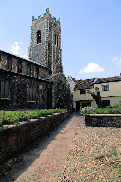 St George, Tombland, Norwich